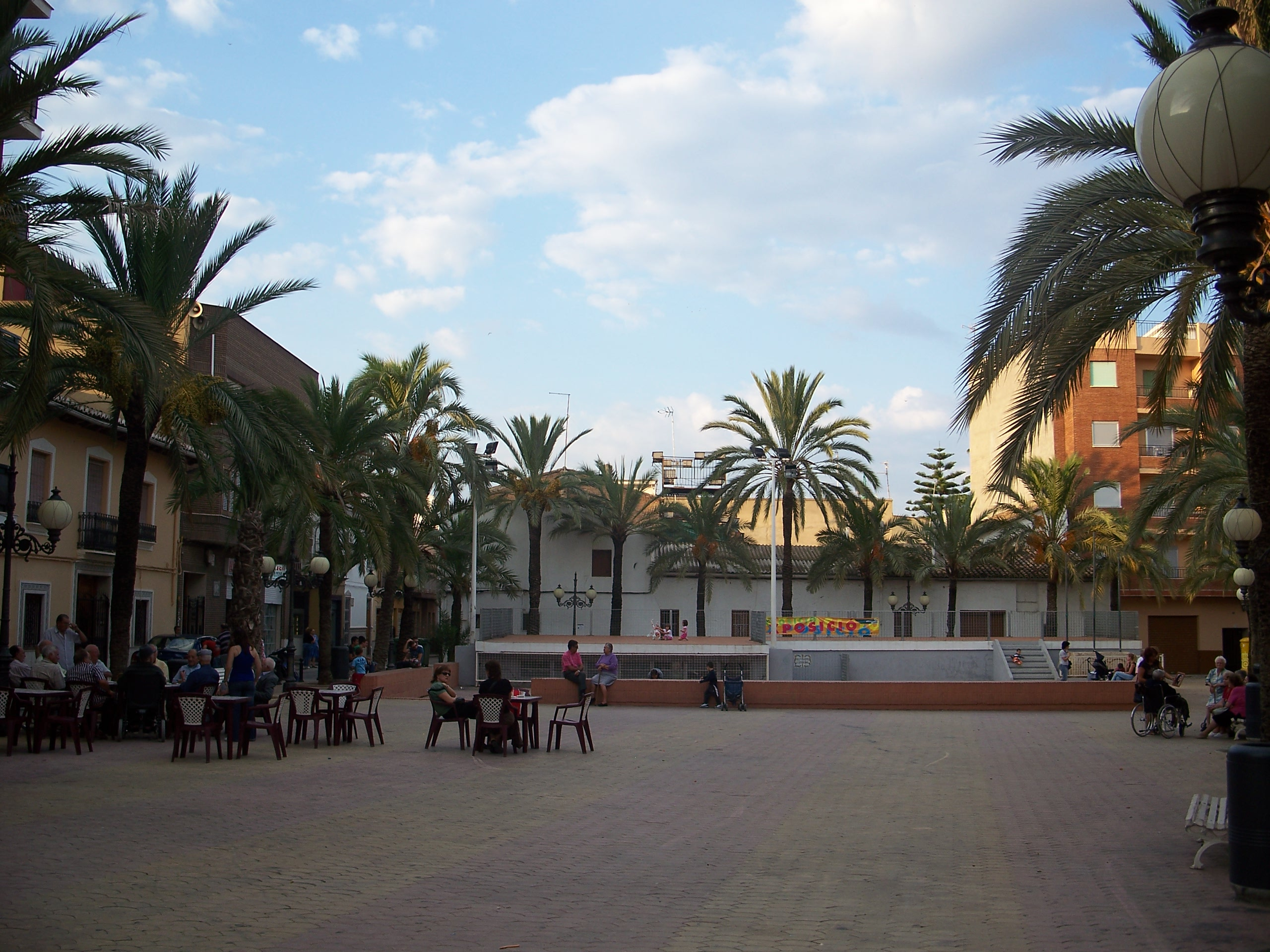 Plaça_de_País_Valencià,_Picanya